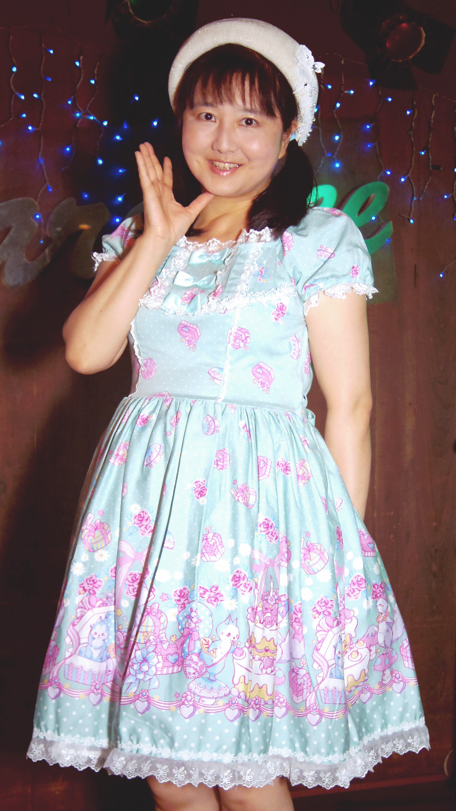 Oono Marina at MARQUEE 20190608-trim02